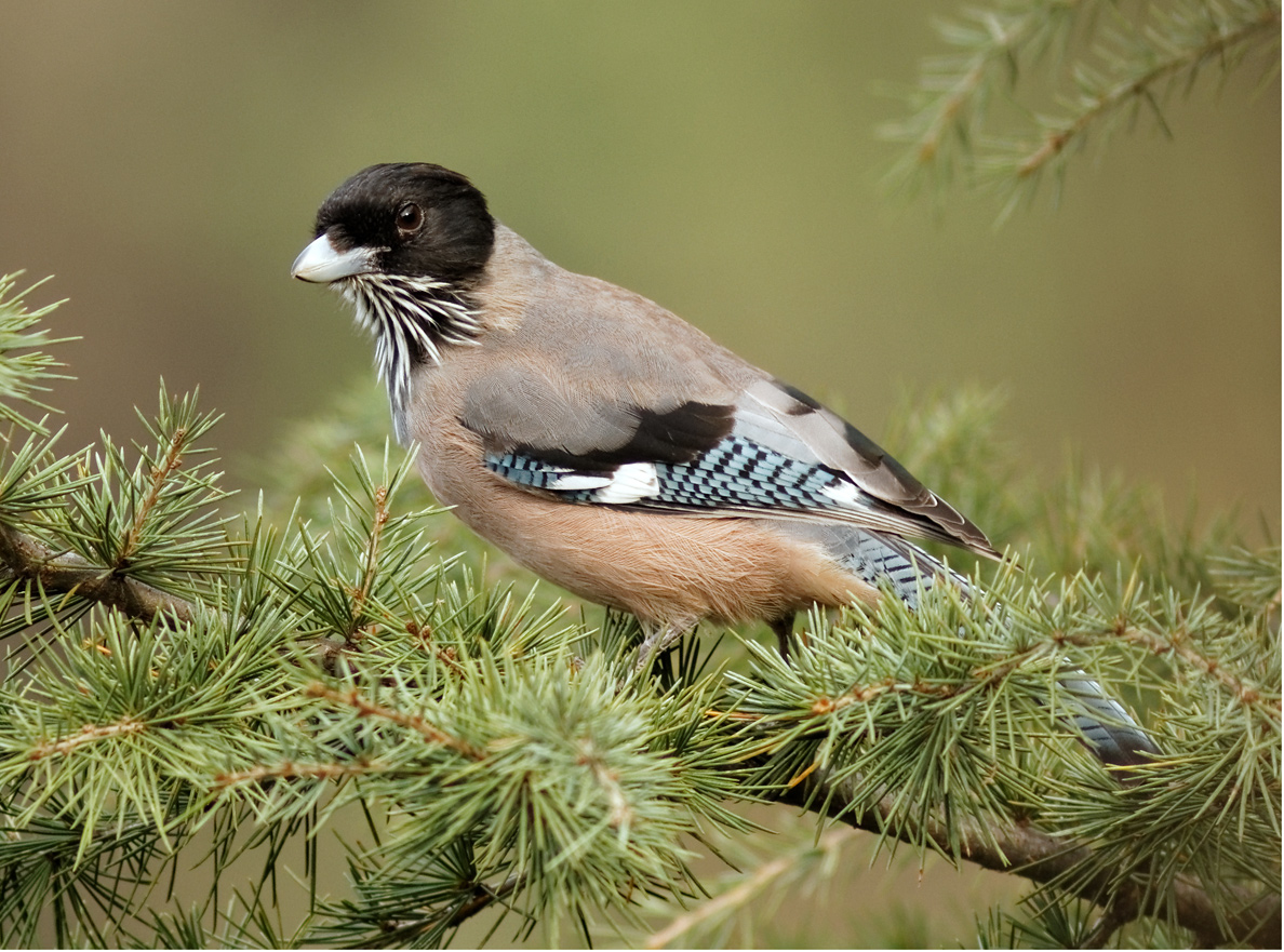 The black-headed jay (Garrulus lanceolatus) at Palampur in Kangra Valley, Himachal Pradesh, India.